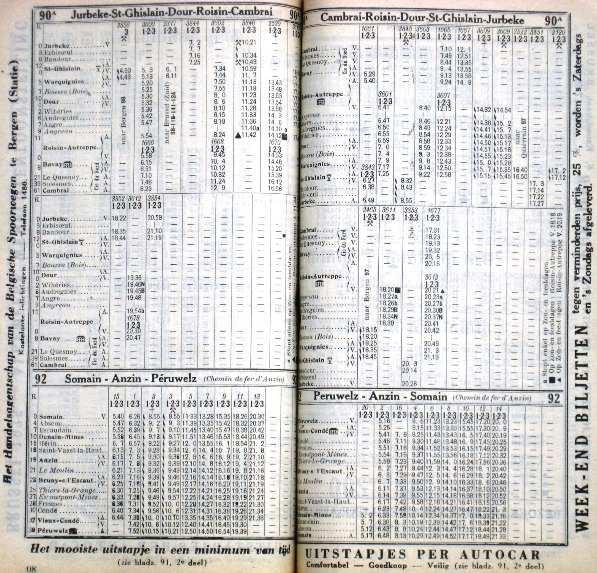 Shows 2 local Belgian-France trainservices in the summer off 1933: 90A Jurbeke Cambrai 92 Péruwelz Somain: By local company = Chemins de fer d'Anzin